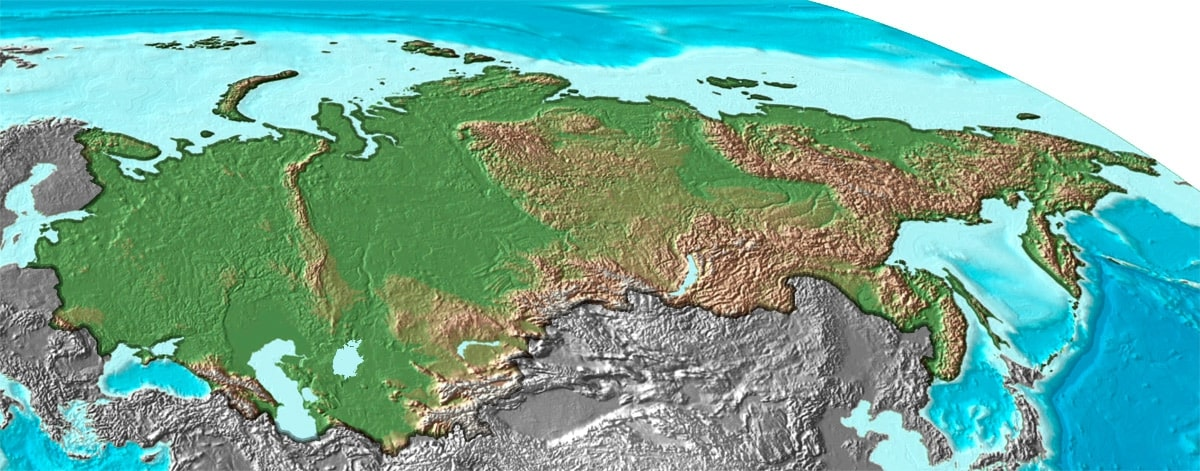 Physical map of the former Soviet Union (USSR).